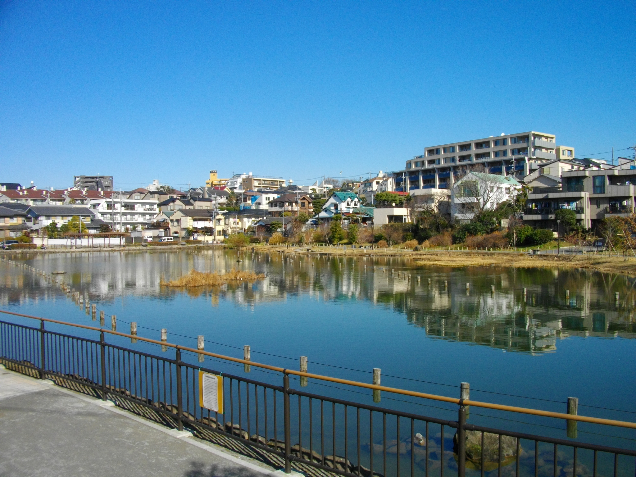 Senzoku-Koike